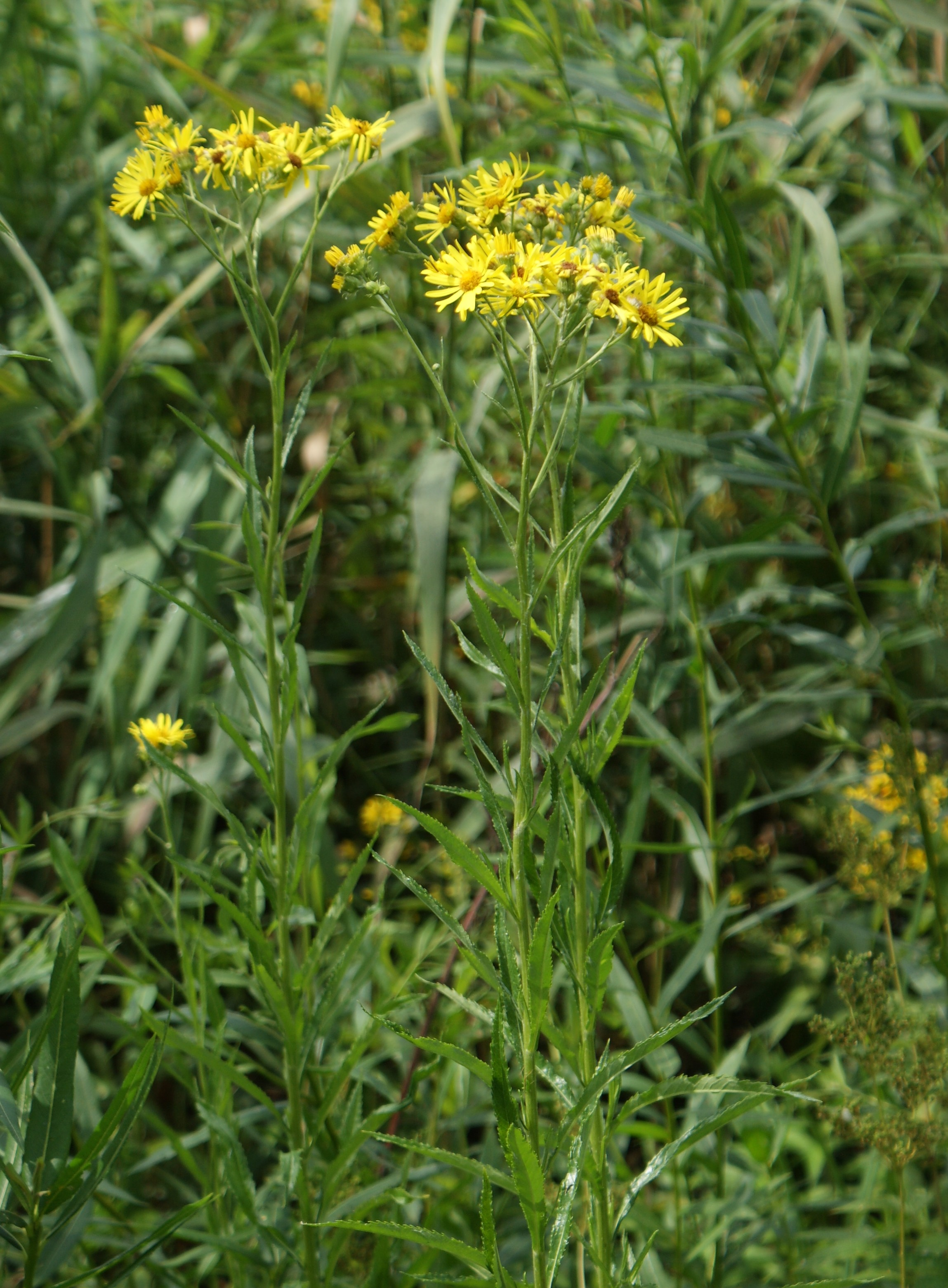 Senecio paludosus (syn. Jacobaea paludosa)